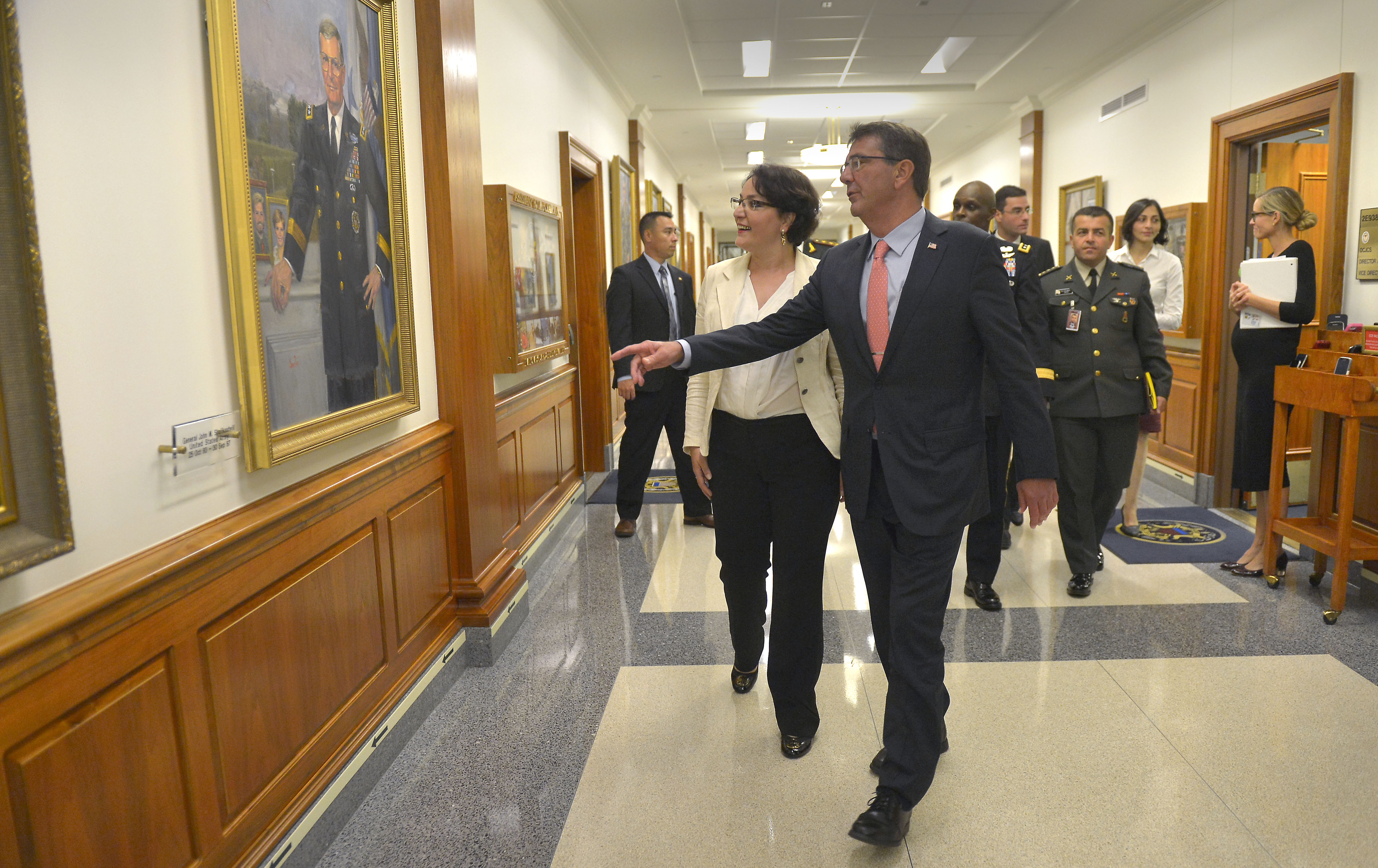 Secretary of Defense Ash Carter gestures toward the portrait of former Chairman of the Joint Chiefs of Staff Army Gen. John Shalikashvili as he welcomes the Minister of Defense of Georgia Tinatin Khidasheli to the Pentagon, August 18, 2015. Born in Warsaw, Poland, to Georgian parents, Shalikashvili served as the chairman from 1993 to 1997. DoD Photo by Glenn Fawcett (Released)